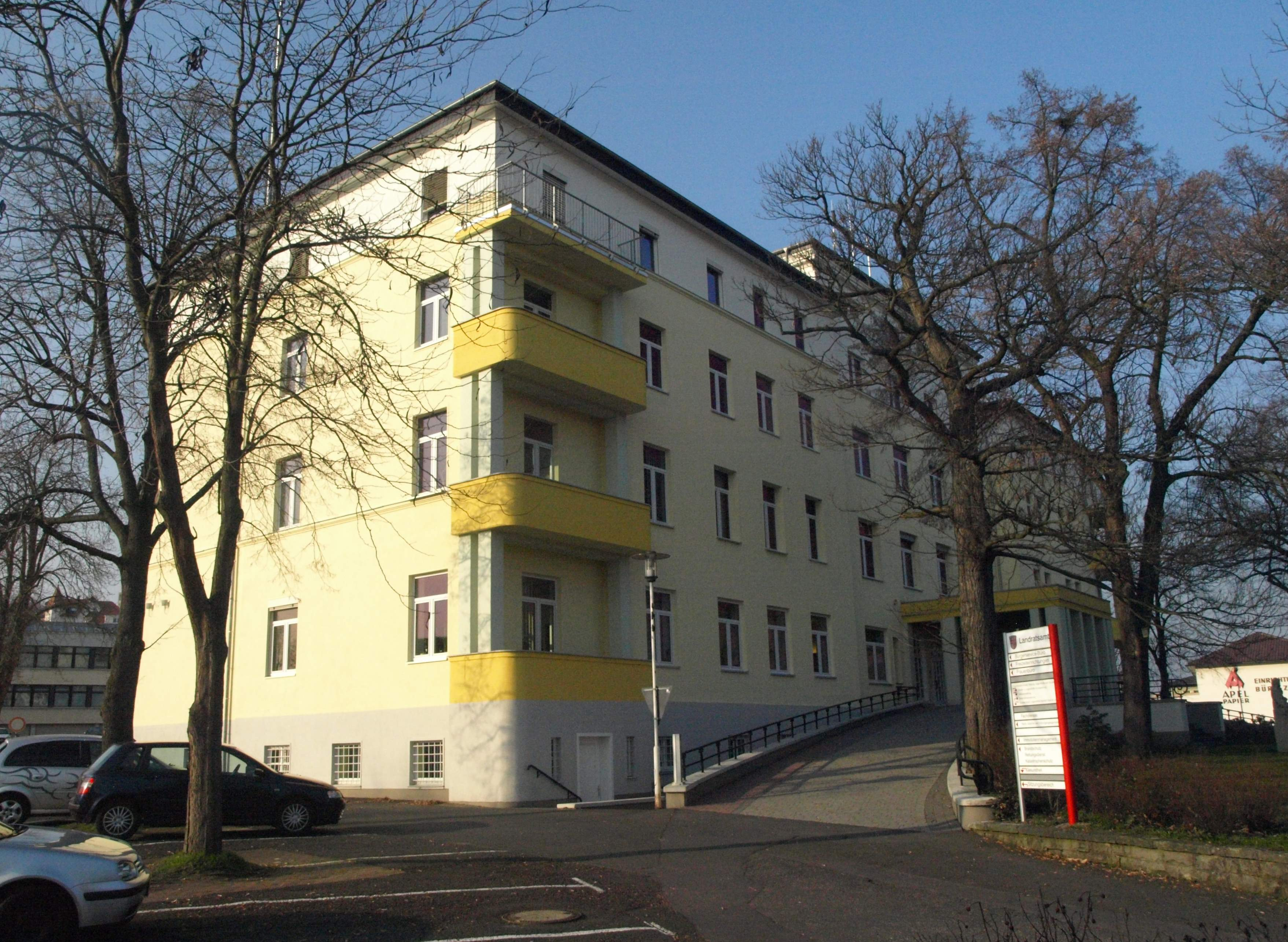 Rural District Office in Bad Hersfeld